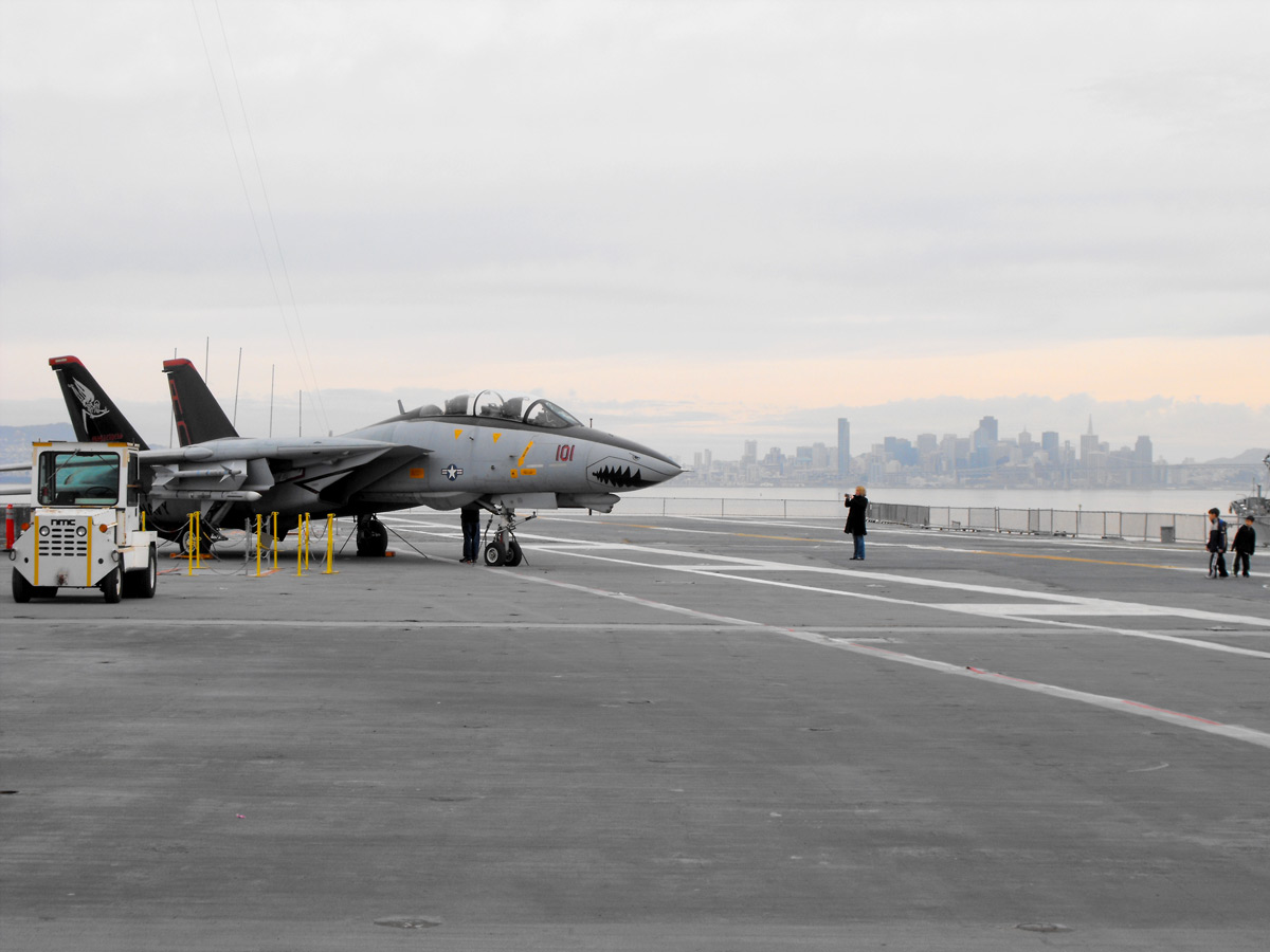 F-14A 162689 at the USS Hornet Museum in Alameda, California, February 2009